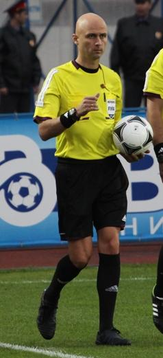 Sergei Karasev refereeing a Russian Premier League game between FC Volga Nizhny Novgorod and FC Mordovia Saransk.